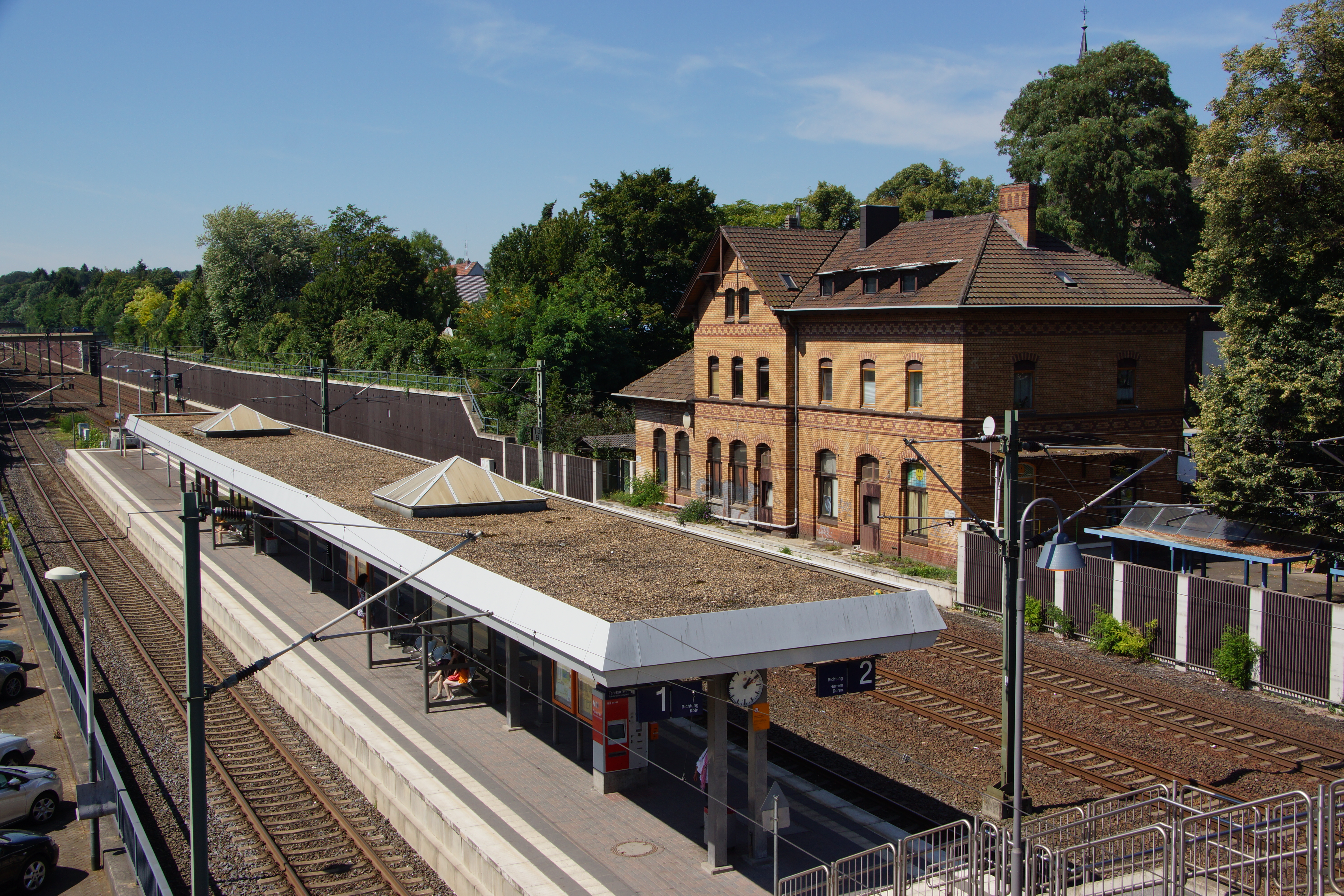 Train station (S-Bahn) Frechen-Königsdorf, Germany